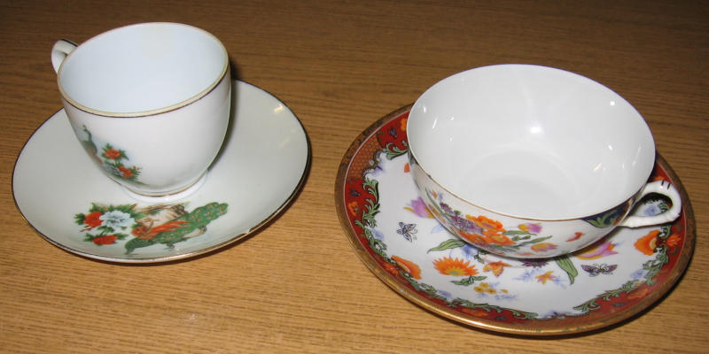 Cup for coffee (small, left) and for tea (large, right).